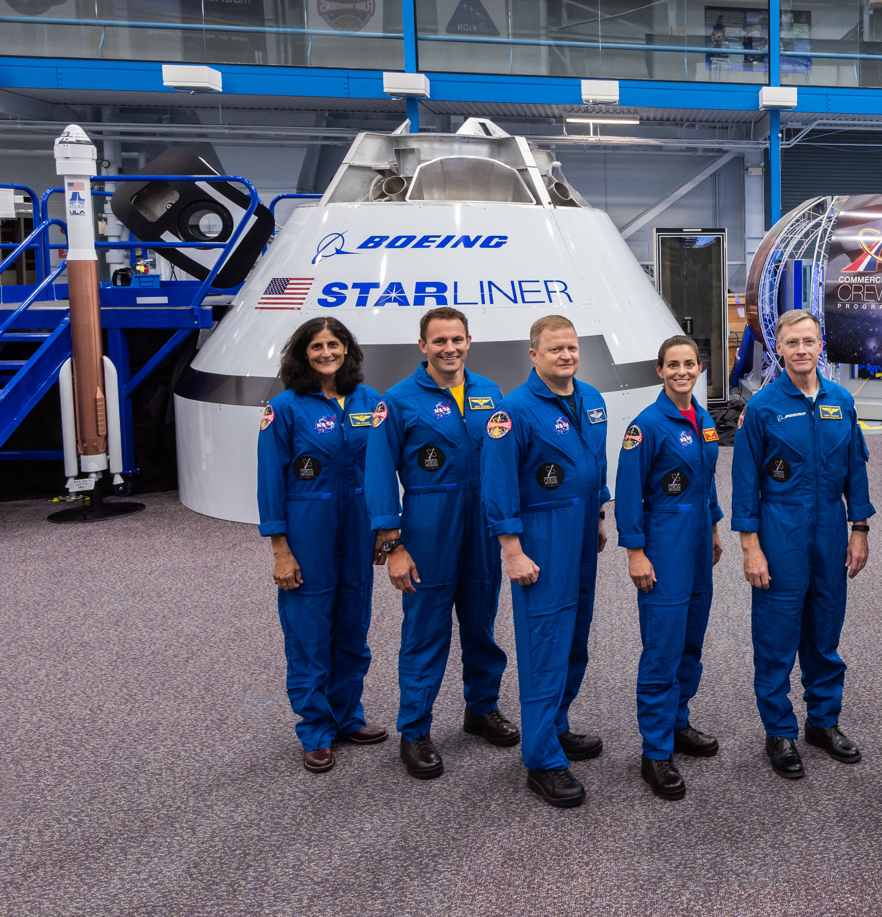 Boeing CST-100 Starliner and the astronauts assigned to the first two flights, August 3, 2018. The astronauts are, from left to right: Sunita Williams, Josh Cassada, Eric Boe, Nicole Mann, and Christopher Ferguson.